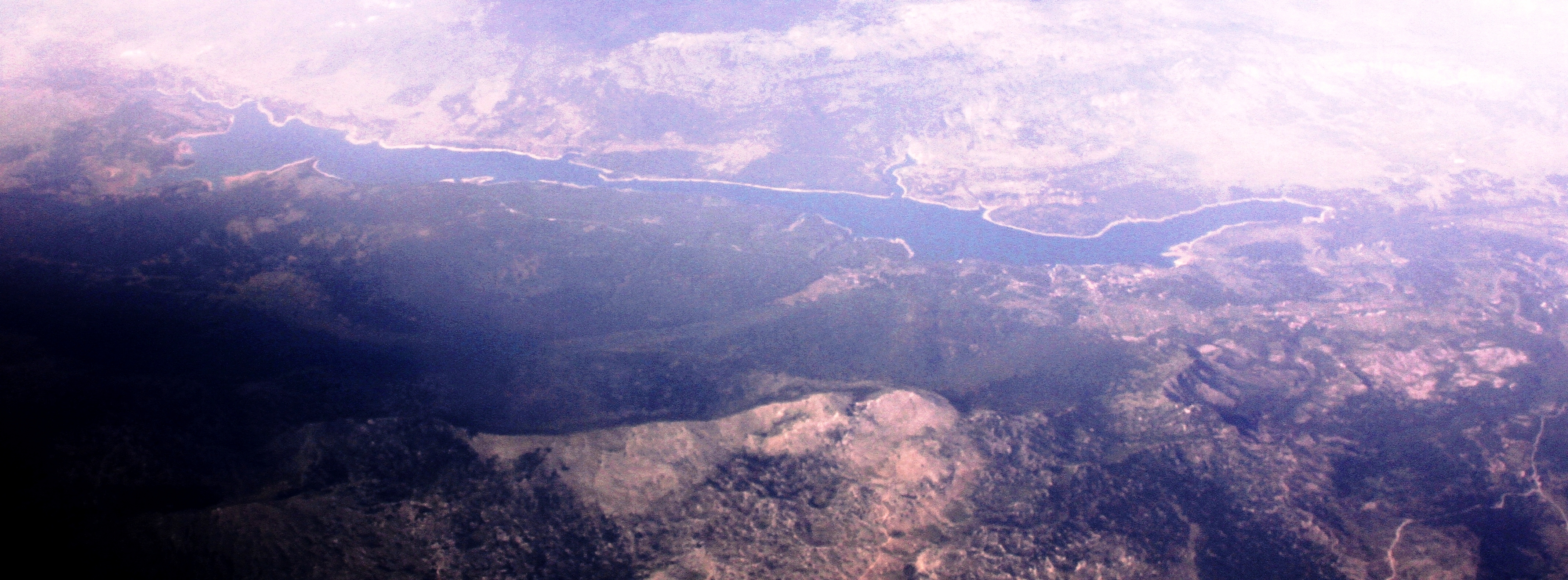 Aerial view over the western, Dalmatia parts of Croatia.This is Lake Perucko